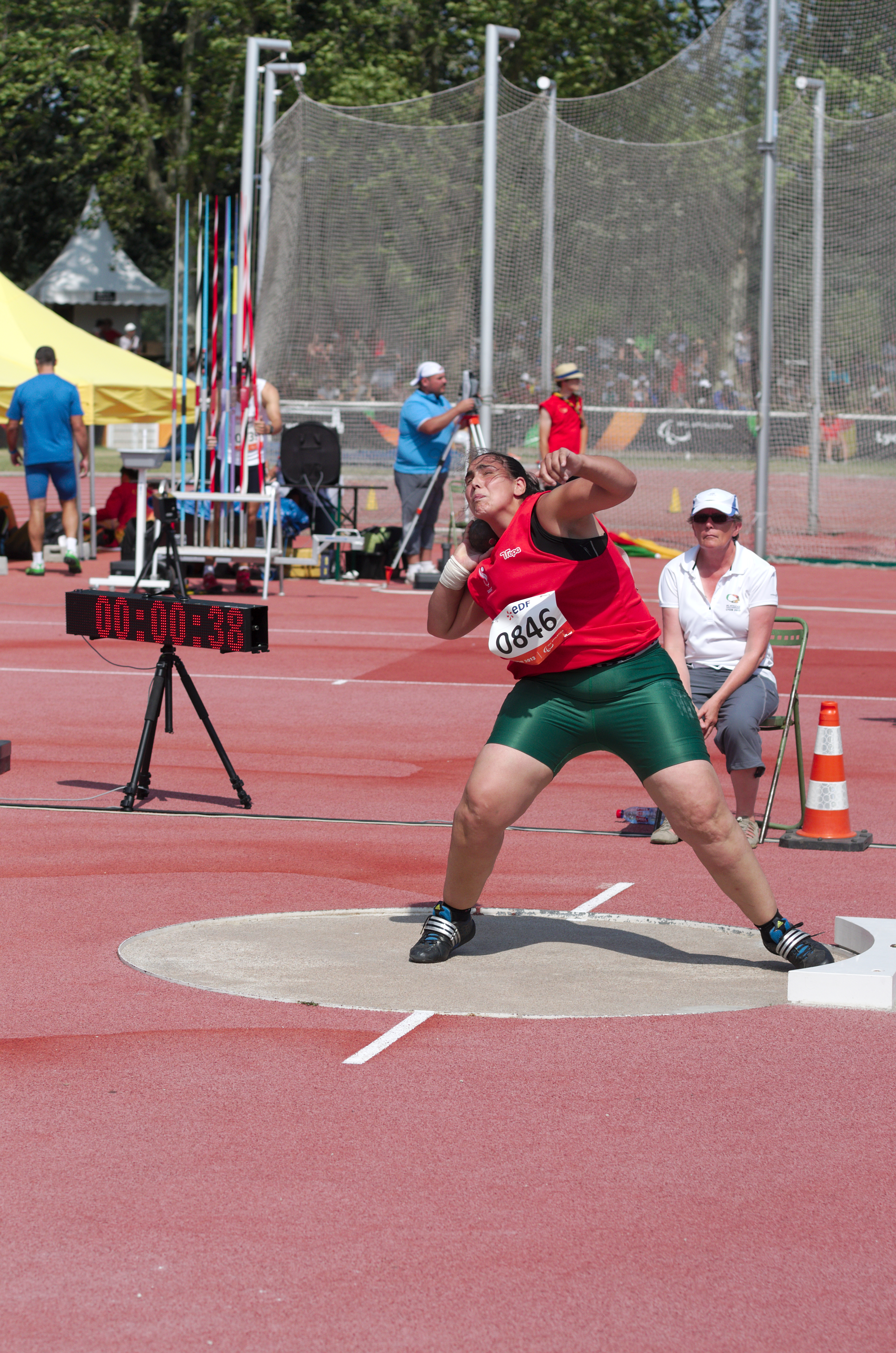 Ines Fernandes of Portugal during the Women's Shot put - F20